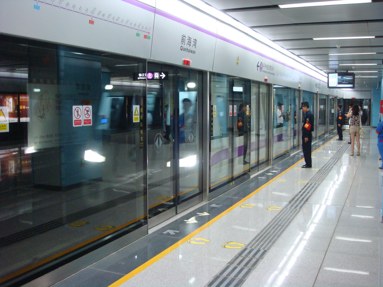 Qianhaiwan Station of Huanzhong Line, Shenzhen Metro.